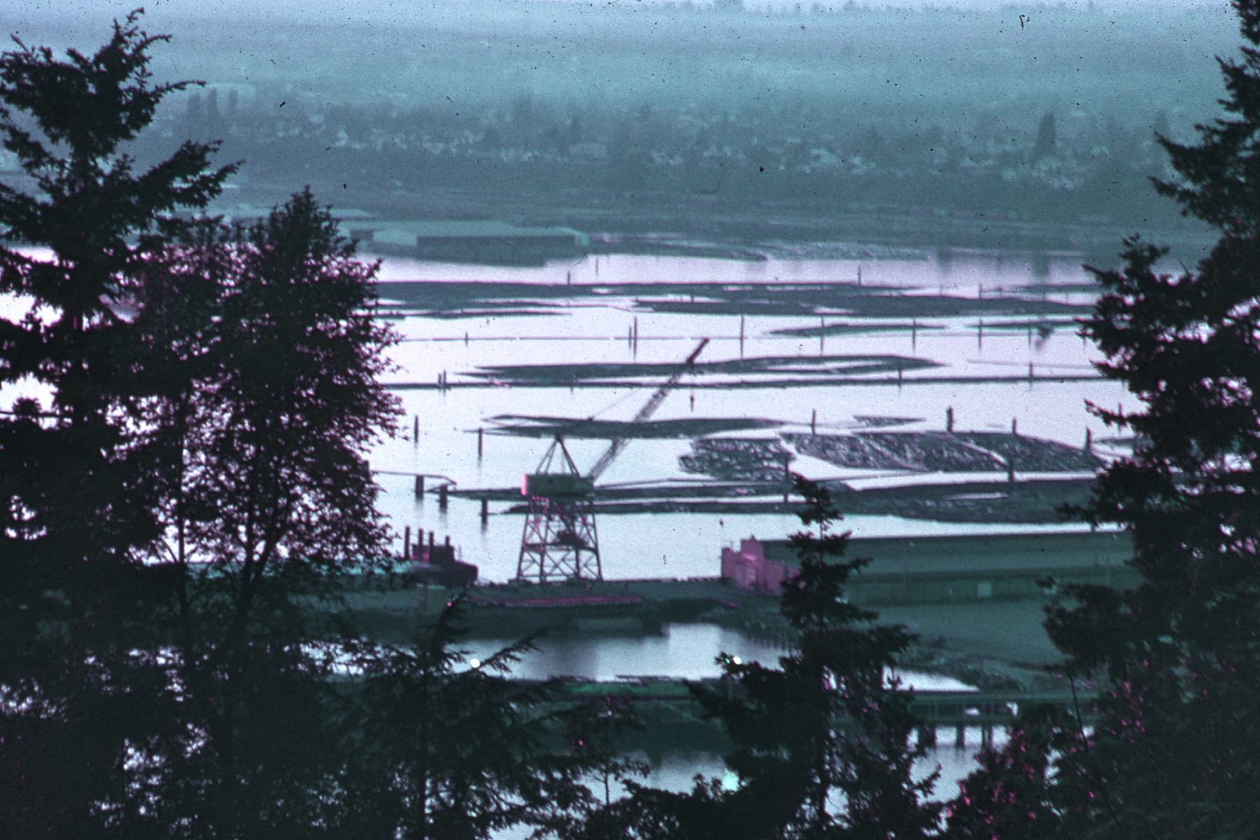 View of Bellingham harbor filled with the logs to be processed by the Georgia-Pacific company pulp mill. Other information The Bellingham Bay no longer looks like this.